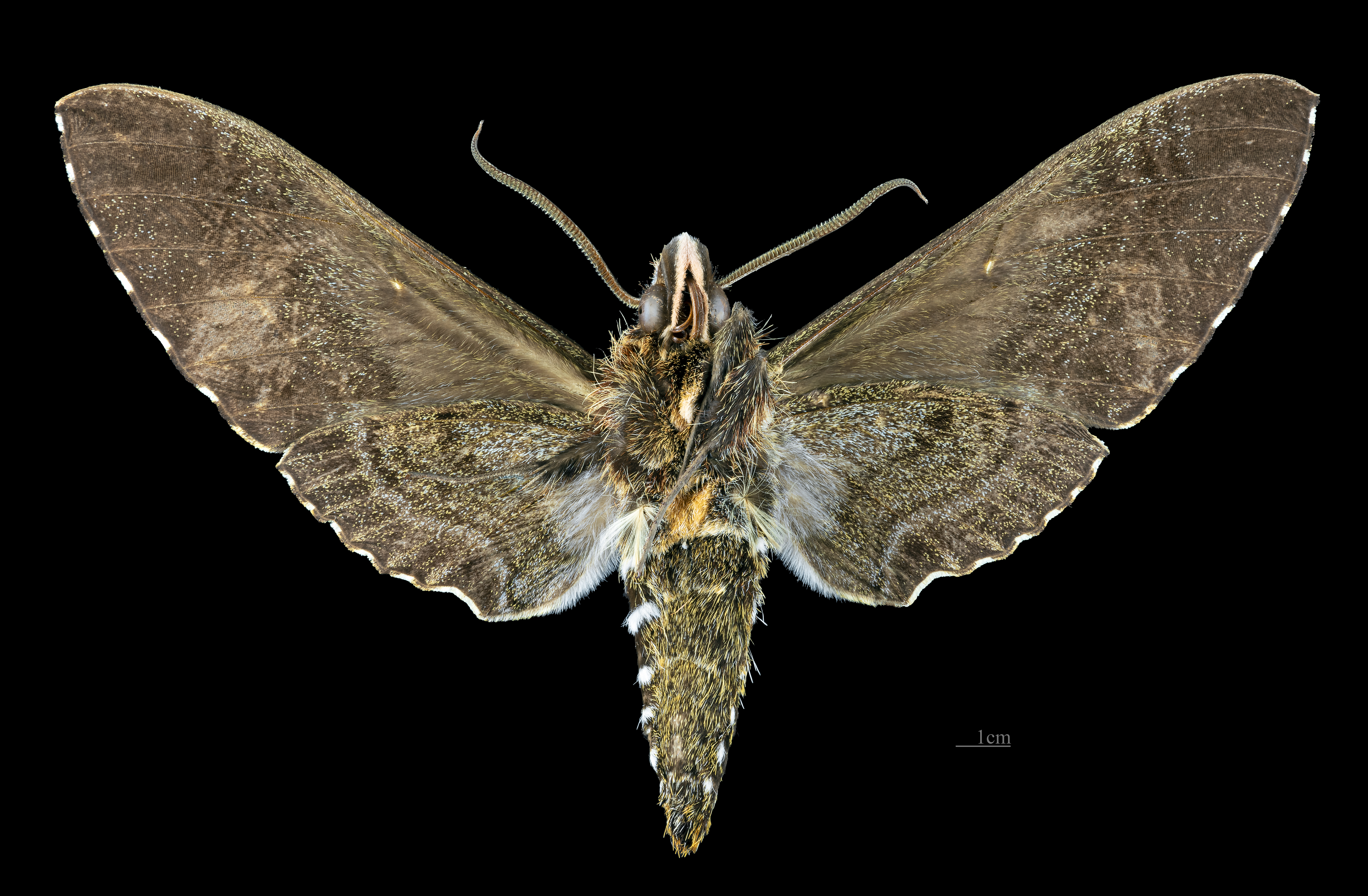 Euryglottis aper - △ Ventral side Collection of the Mathematician Laurent Schwartz